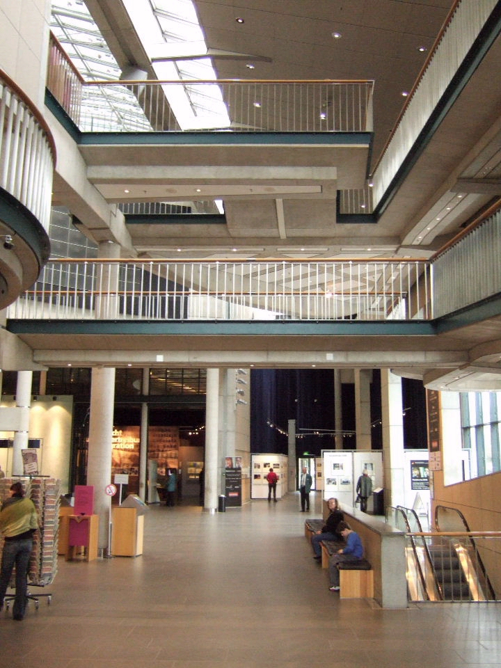 House of History of the Federal Republic of Germany in Bonn – entrance hall